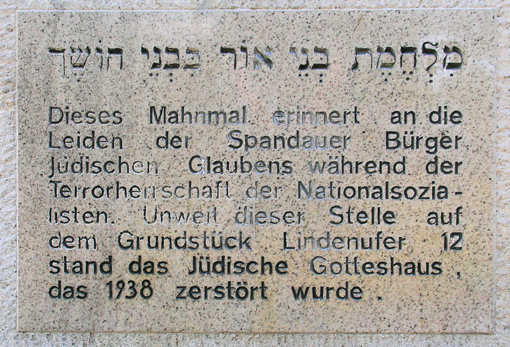 Memorial plaque, Synagoge Spandau, Lindenufer 12, Berlin-Spandau, Germany